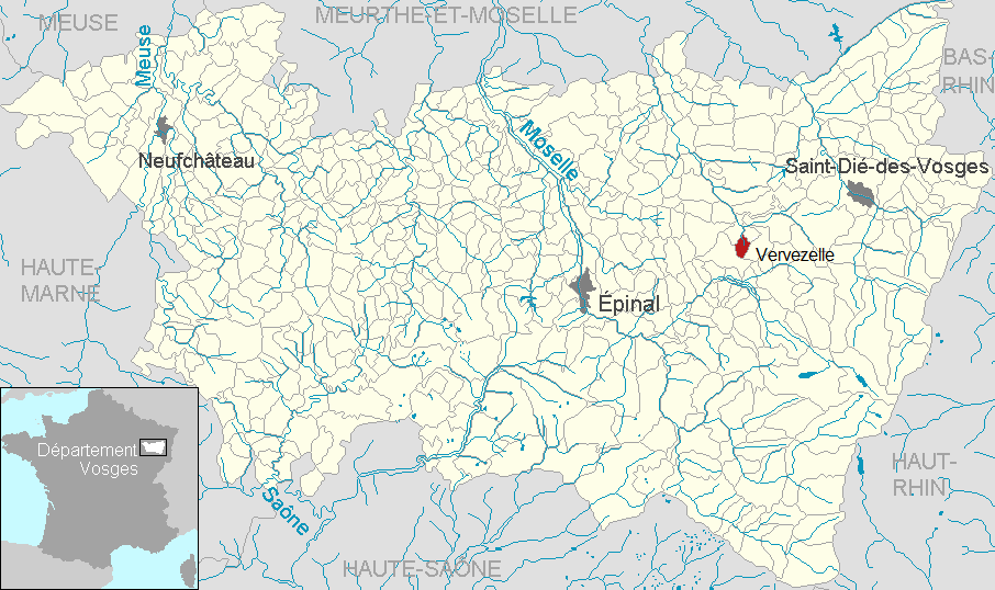 Vervezelle in the department of Vosges, Lorraine, France